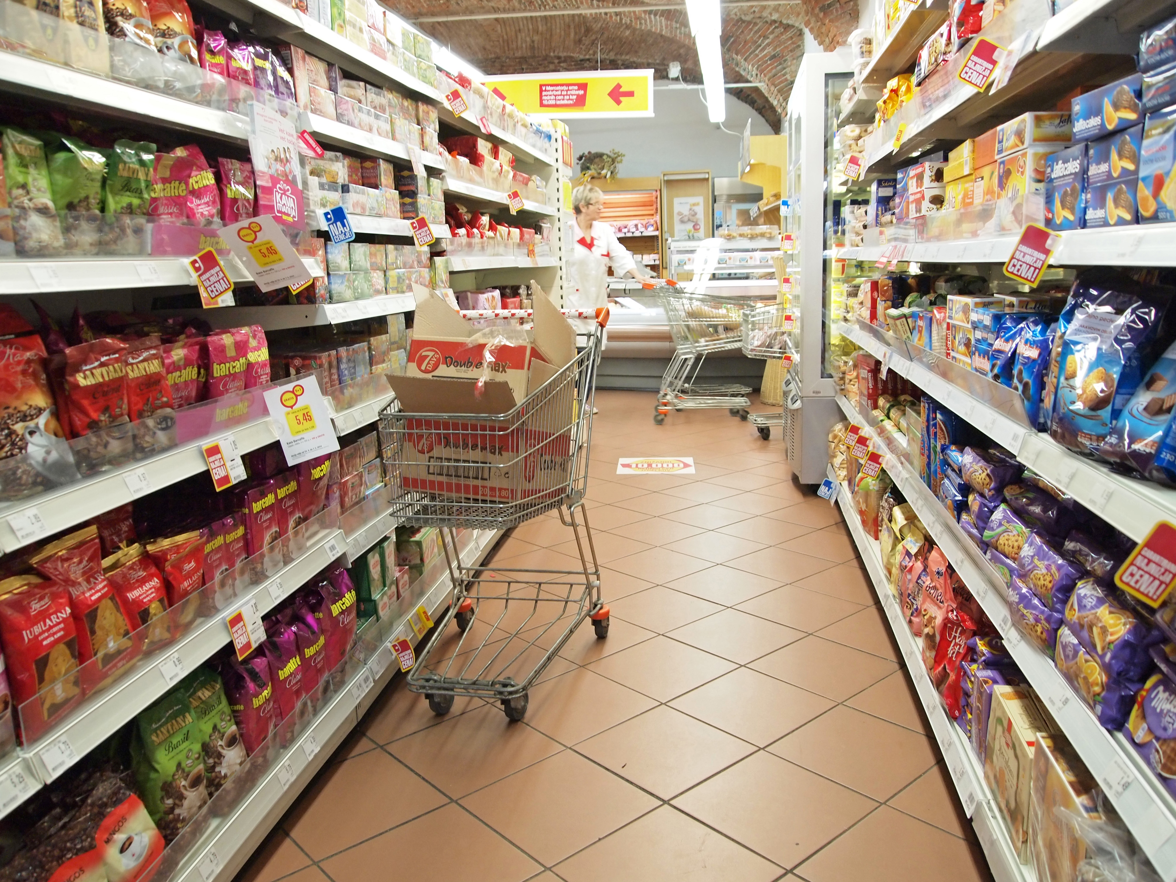 Mercator grocery shop in Kranj.